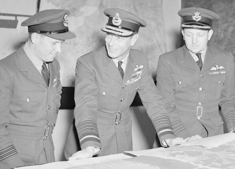 Operation Chastise (the Dambusters' Raid) 16 - 17 May 1943 Personalities: HM King George VI examining the Moehne Dam model with Wing Commander Gibson and Group Captain Whitworth during his visit to Royal Air Force Scampton, No 617 Squadron's base.